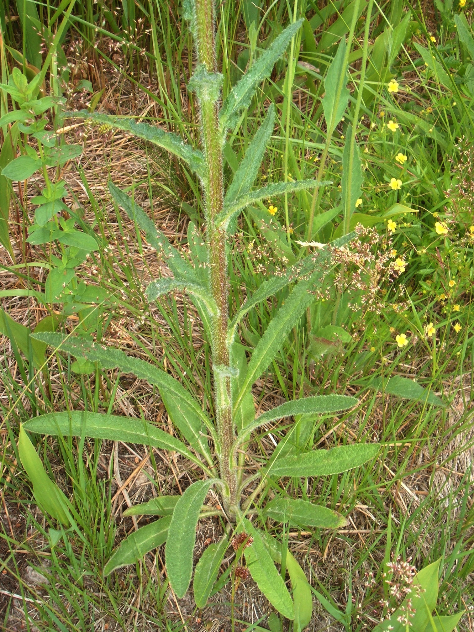 Bristly Bellflower